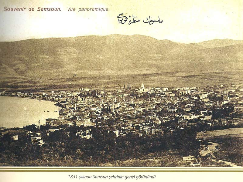 General view of Samsun - title is caption on photo